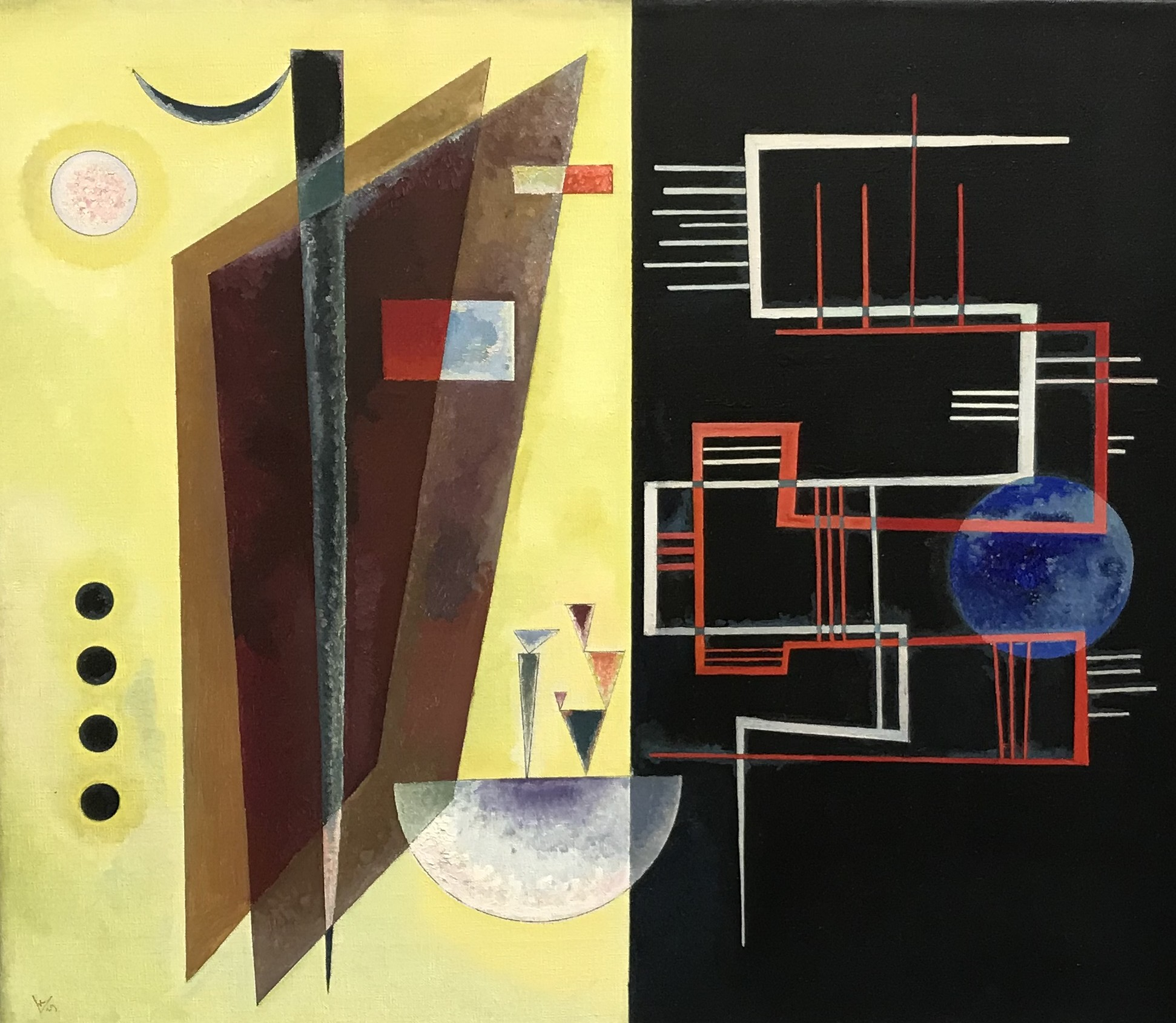 Wassily Kandinsky - Inner Alliance (1929)